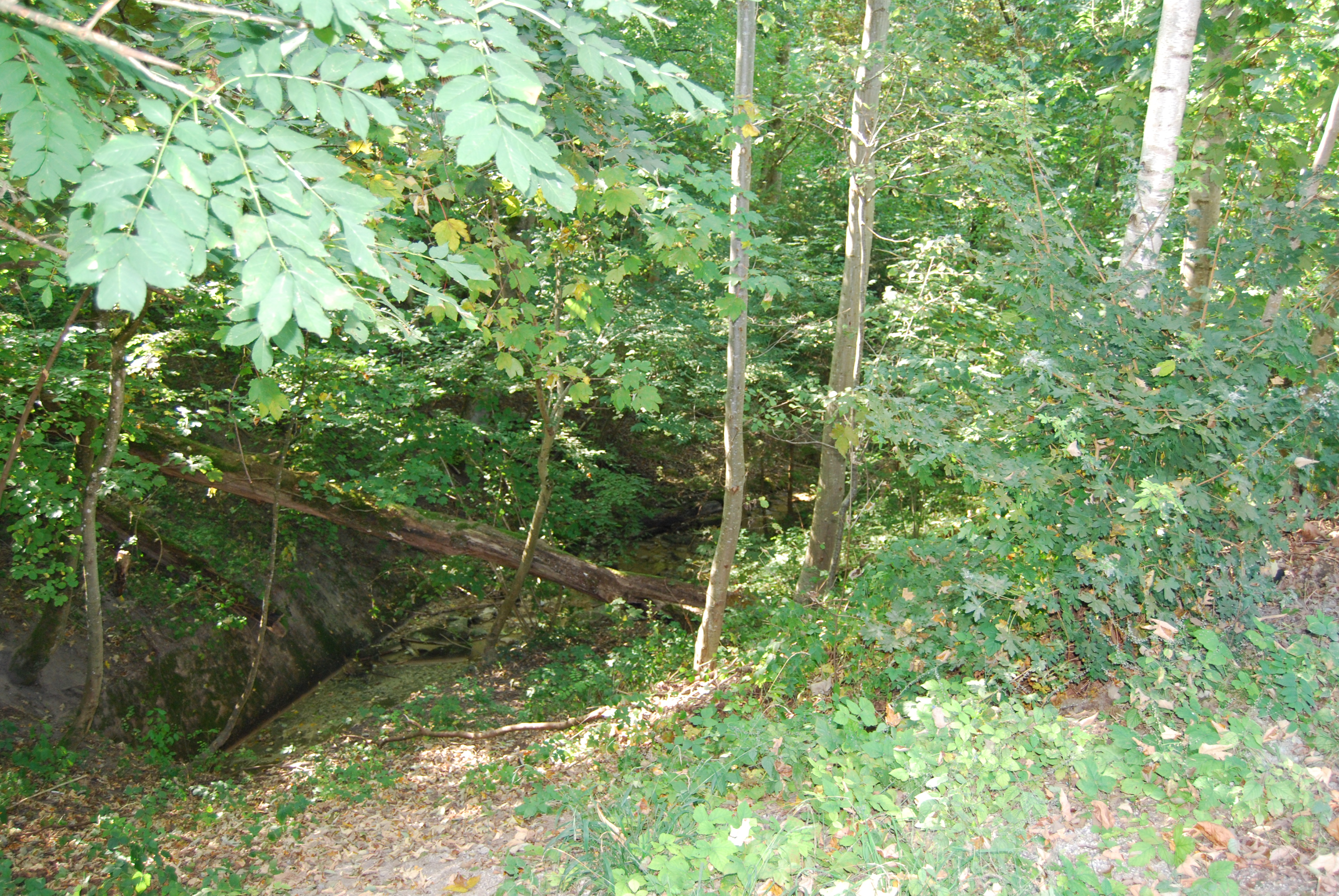 River Arnibach at Arni, canton of Aargau, SwitzerlandEsperanto: Rivereto Arnibach en Arni, Kantono Argovio, Svislando